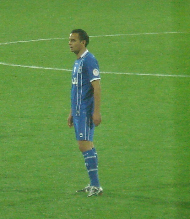 Arash Borhani, Esteghlal-Al Ain, 2013 AFC Champions League